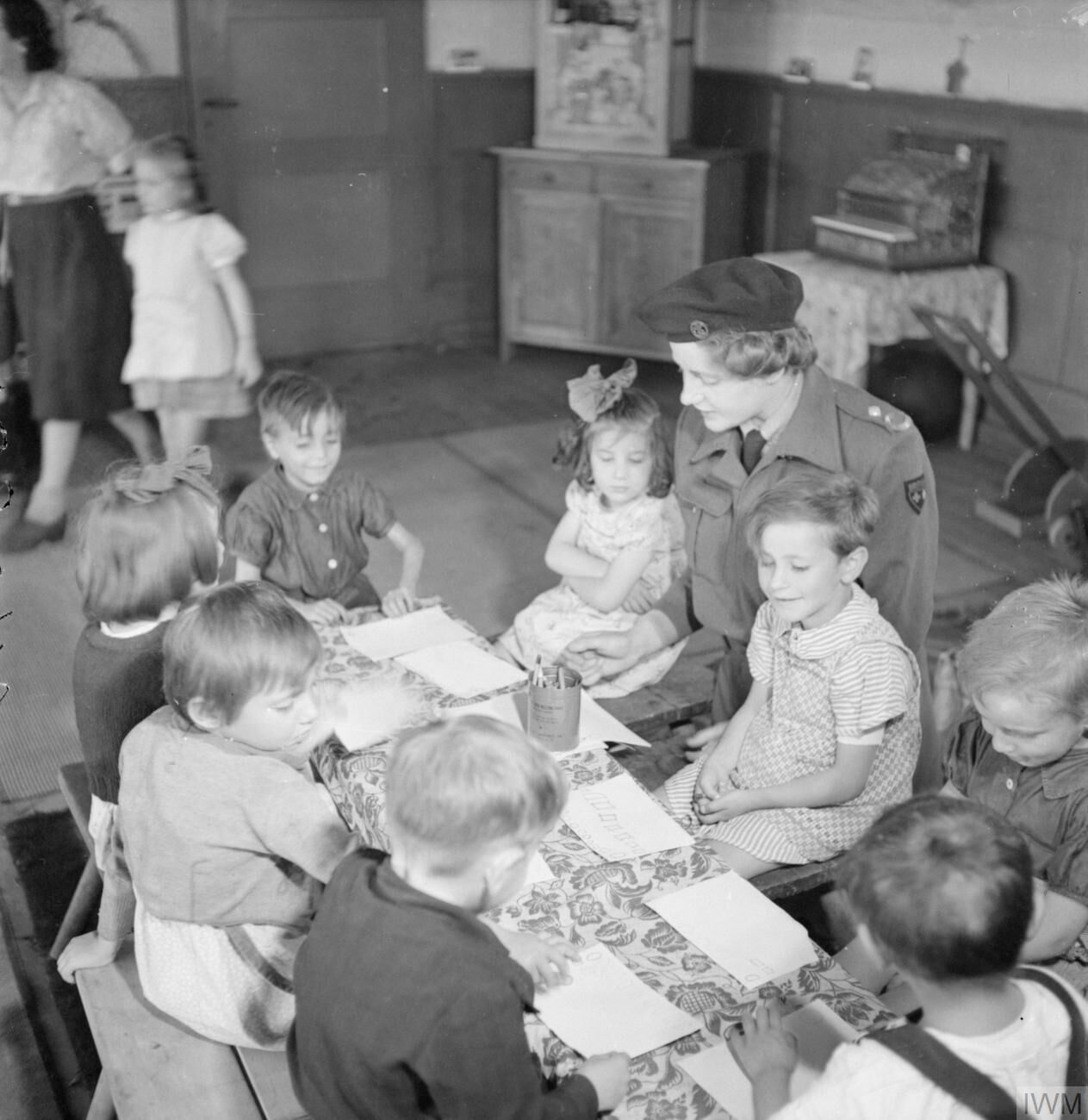 The Liberation of Bergen-belsen Concentration Camp, June 1945 Miss S J Reekie, a British trained nurse and child welfare specialist works with the very young children in the kindergarten set up at Belsen after the liberation of the camp. All the children in the photograph were orphans.